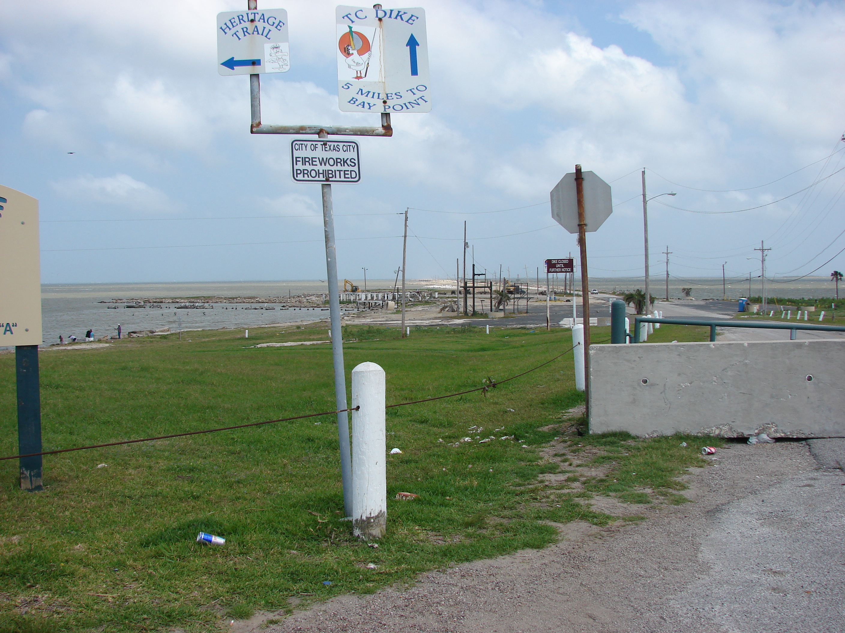 Photograph of the entrance to the Texas City Dike during its nearly two year closure after Hurricane Ike hit on mid-September 2008.